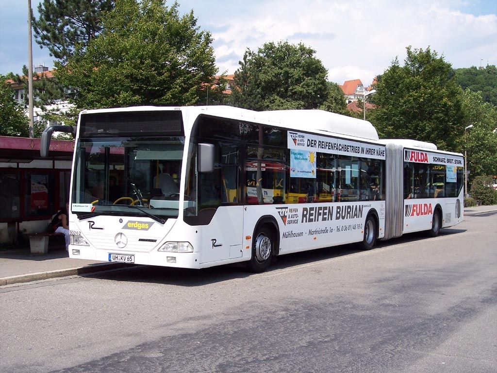 CNG-fuelled Mercedes-Benz Citaro G CNG of RBM, Mühlhausen, Germany. This bus was evaluated by Stadtverkehr Tübingen in July 2005 and is seen here at Tübingen bus station.